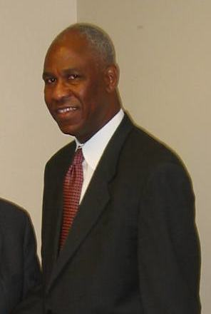 Rudy Giuliani meeting Memphis Mayor Herenton on March 5, 2003.